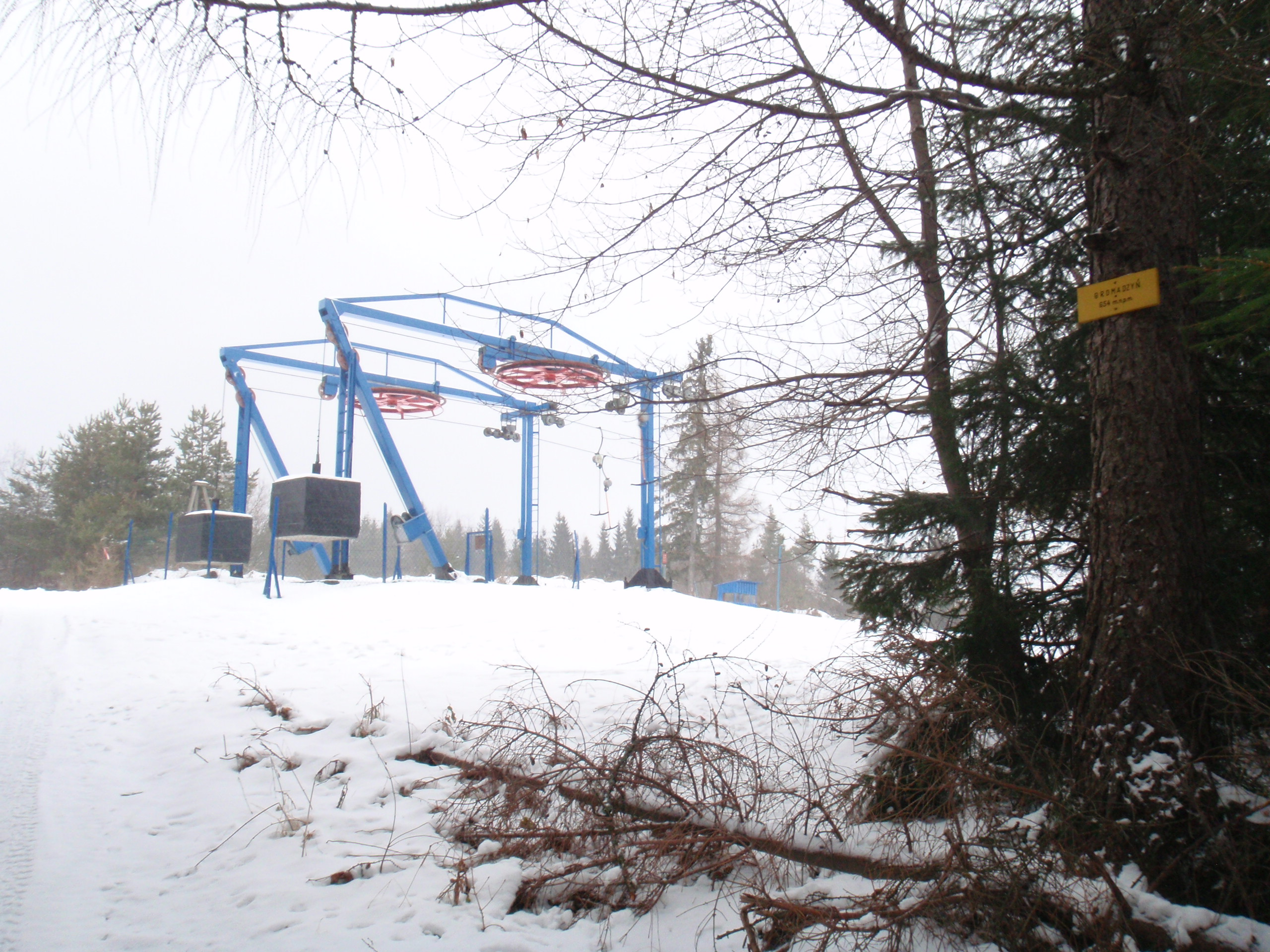 Ski-lift on Gromadzyń mountain